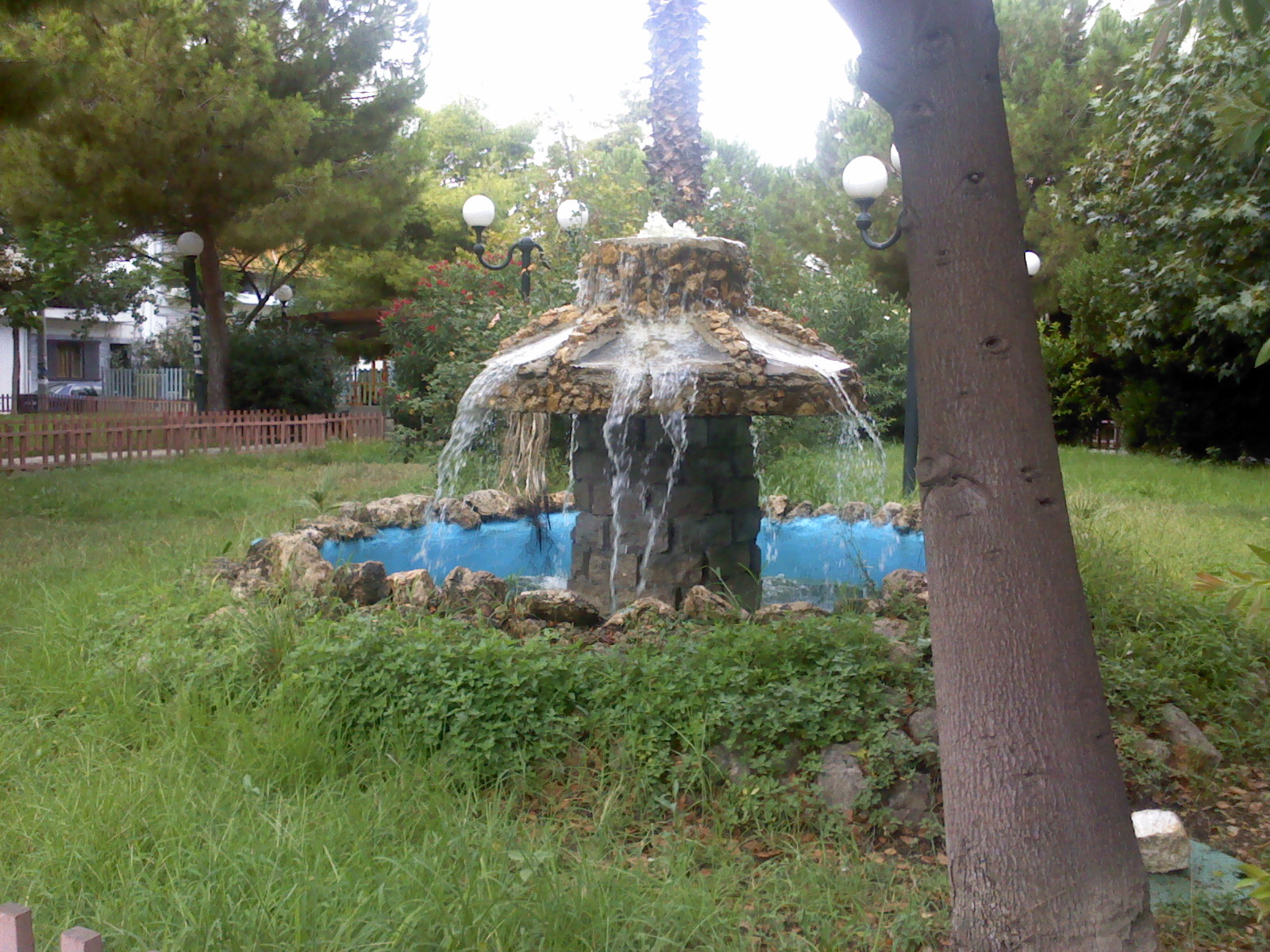 Square Andrea Papandreou Kaminia